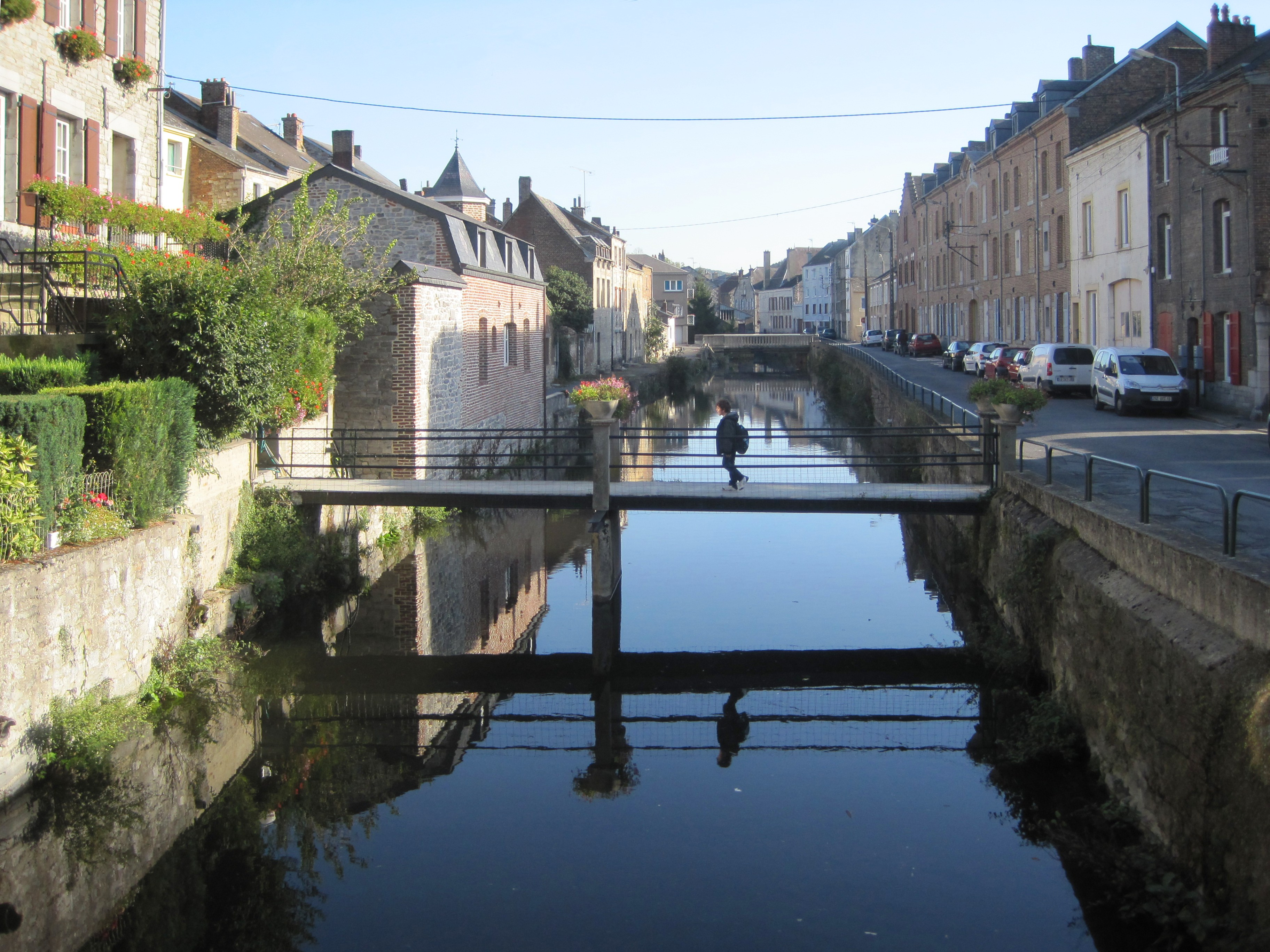 Givet (Ardennes, France), quai de la Houille - Walkway on the Houille river. Walon: Djivèt (Ardennes, France), kê dol Ouye - Passerèle sul Ouye.